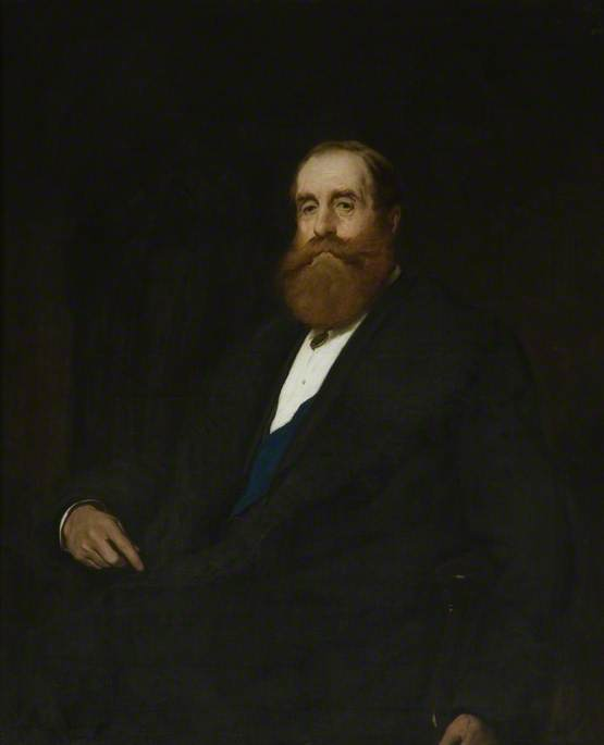 John Poyntz Spencer, 5th Earl Spencer (1835-1910), Chairman of the County Council (1888) (copy of Frank Holl)